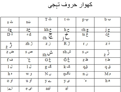 Khowar-Alphabets created by Rehmat Aziz Chitrali Chitral NWFP Pakistan